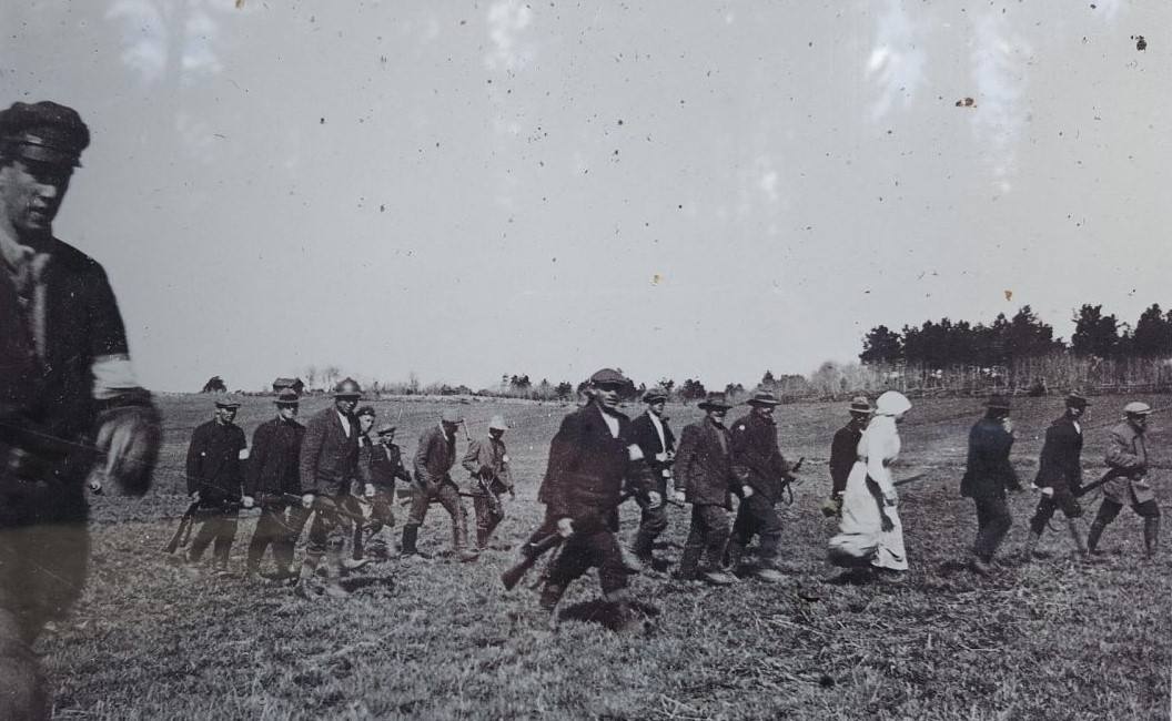 The execution of Red Guard members, including at least one woman, in Västankvarn, Ingå, Finland.